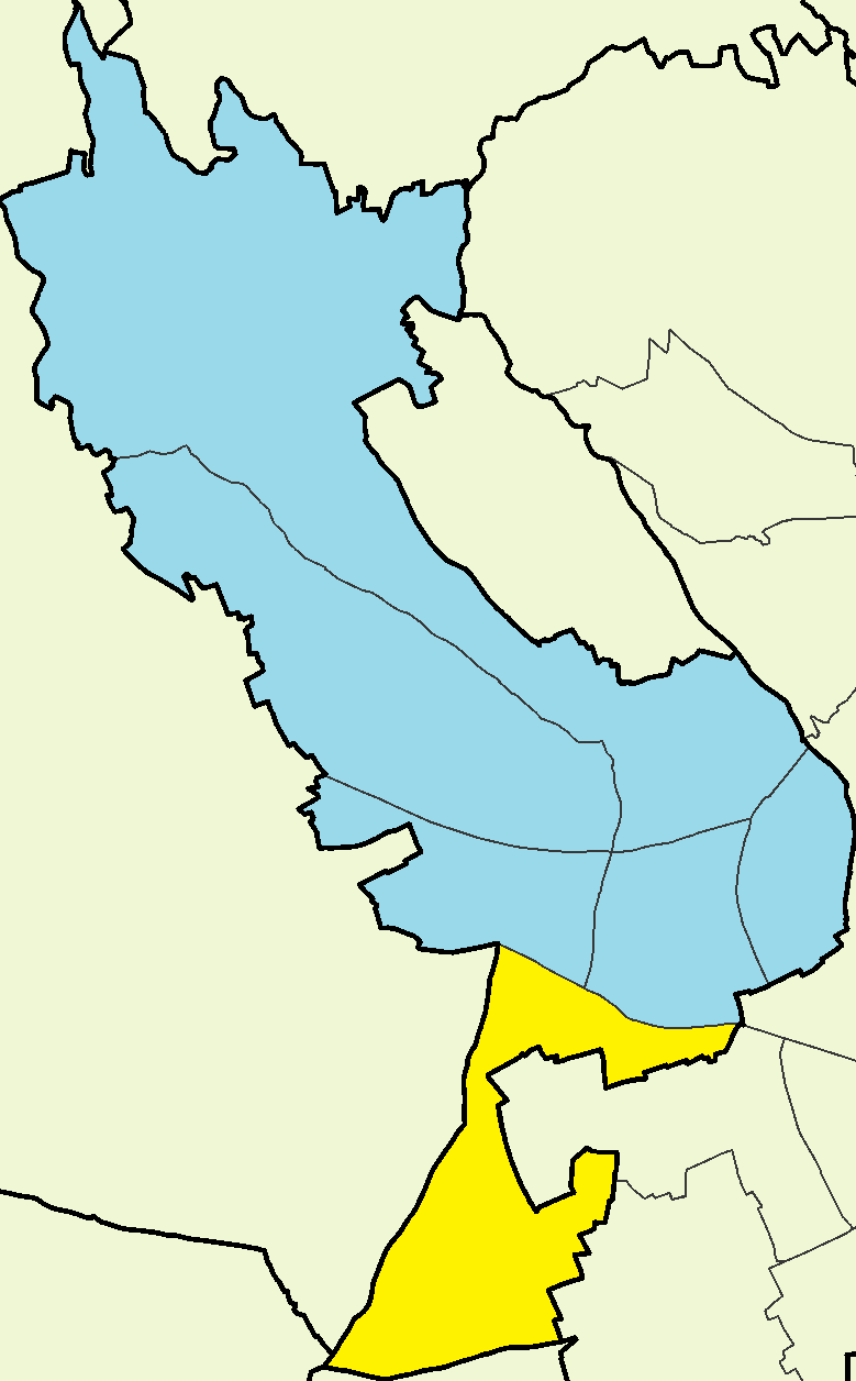 Archangel Michael in Kato Polemidia.